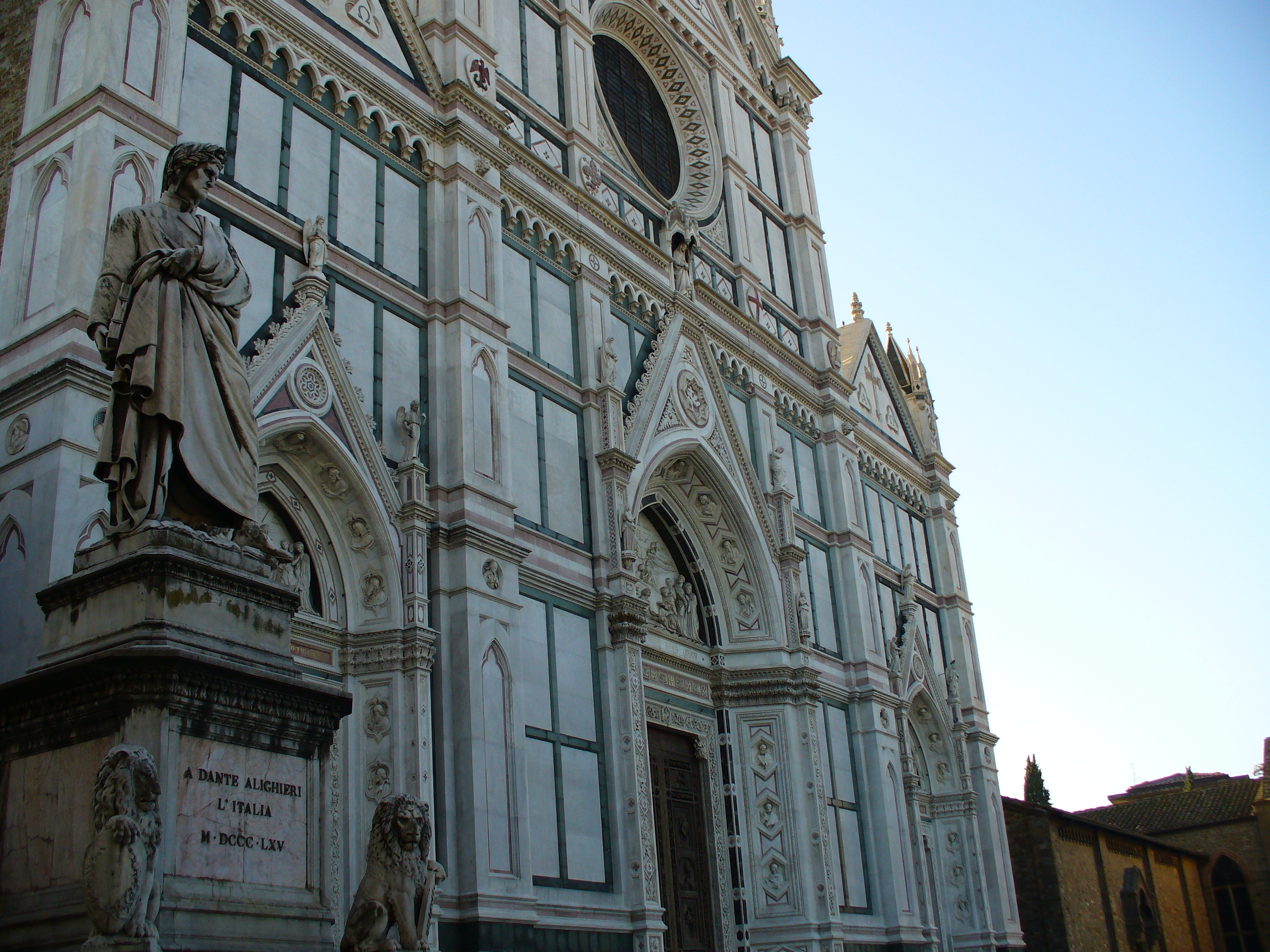 Basilica Santa Croce (Firenze)